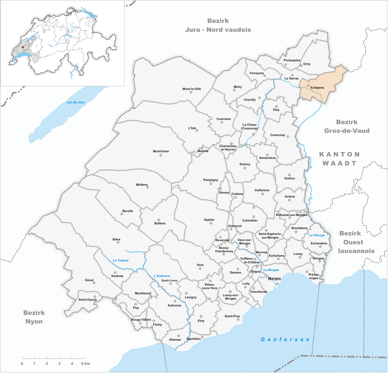 Municipality Eclépens